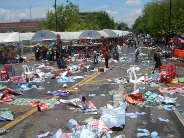 The mess after the mob left (Bangkok, Thailand); 14 April 2009)